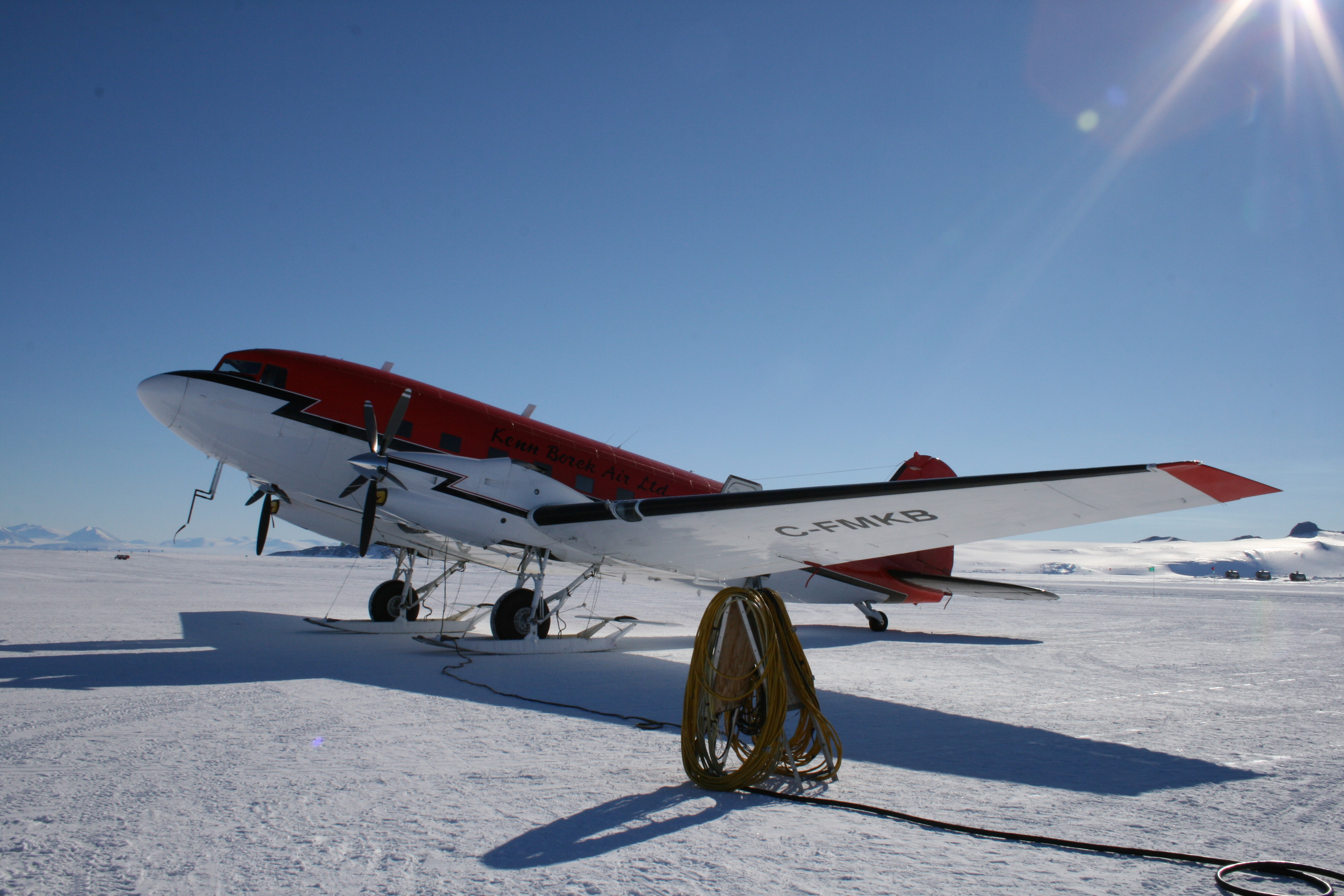 A Basler BT-67 operated by Kenn Borek Air at Williams Field in Antarctica for the US National Science Foundation